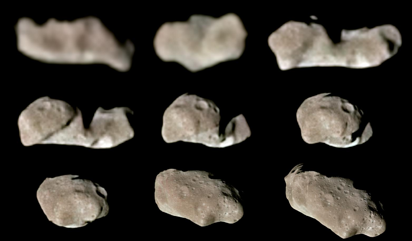 Extract from the image's caption at the NASA Planetary Photojournal: This set of color images of asteroid en:243 Ida was taken by the imaging system on the Galileo spacecraft as it approached and raced past the asteroid on August 28, en:1993. These images were taken through the 4100-angstrom (violet), 7560-angstrom (infrared) and 9680- angstrom (infrared) filters and have been processed to show Ida as it would appear to the eye in approximately natural color. The stark shadows portray Ida's irregular shape, which changes its silhouetted outline when seen from different angles. More subtle shadings reveal surface topography (such as craters) and differences in the physical state and composition of the soil ("regolith").